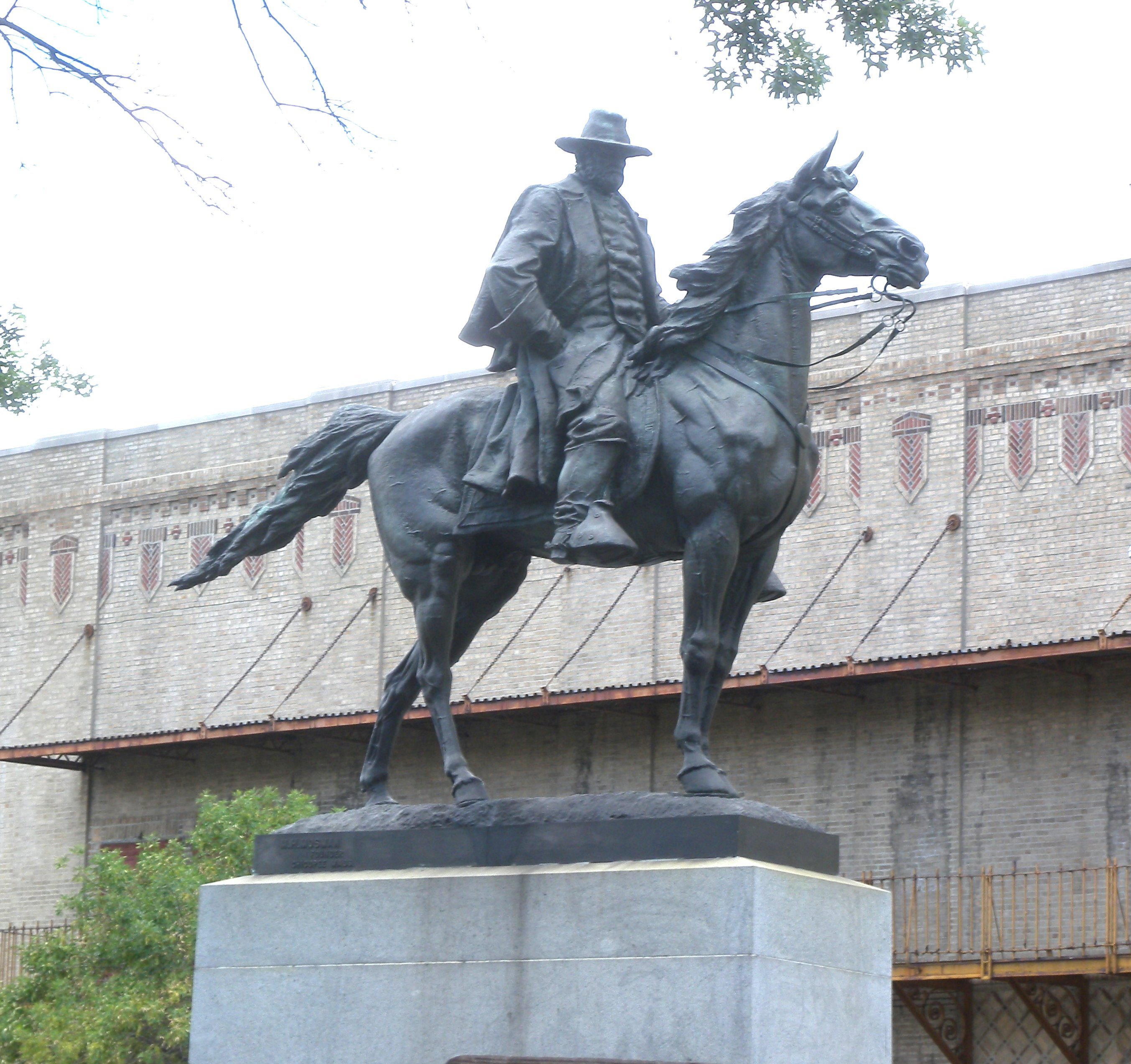 Looking west across Rogers Avenue at Grant on a partly cloudy midday.